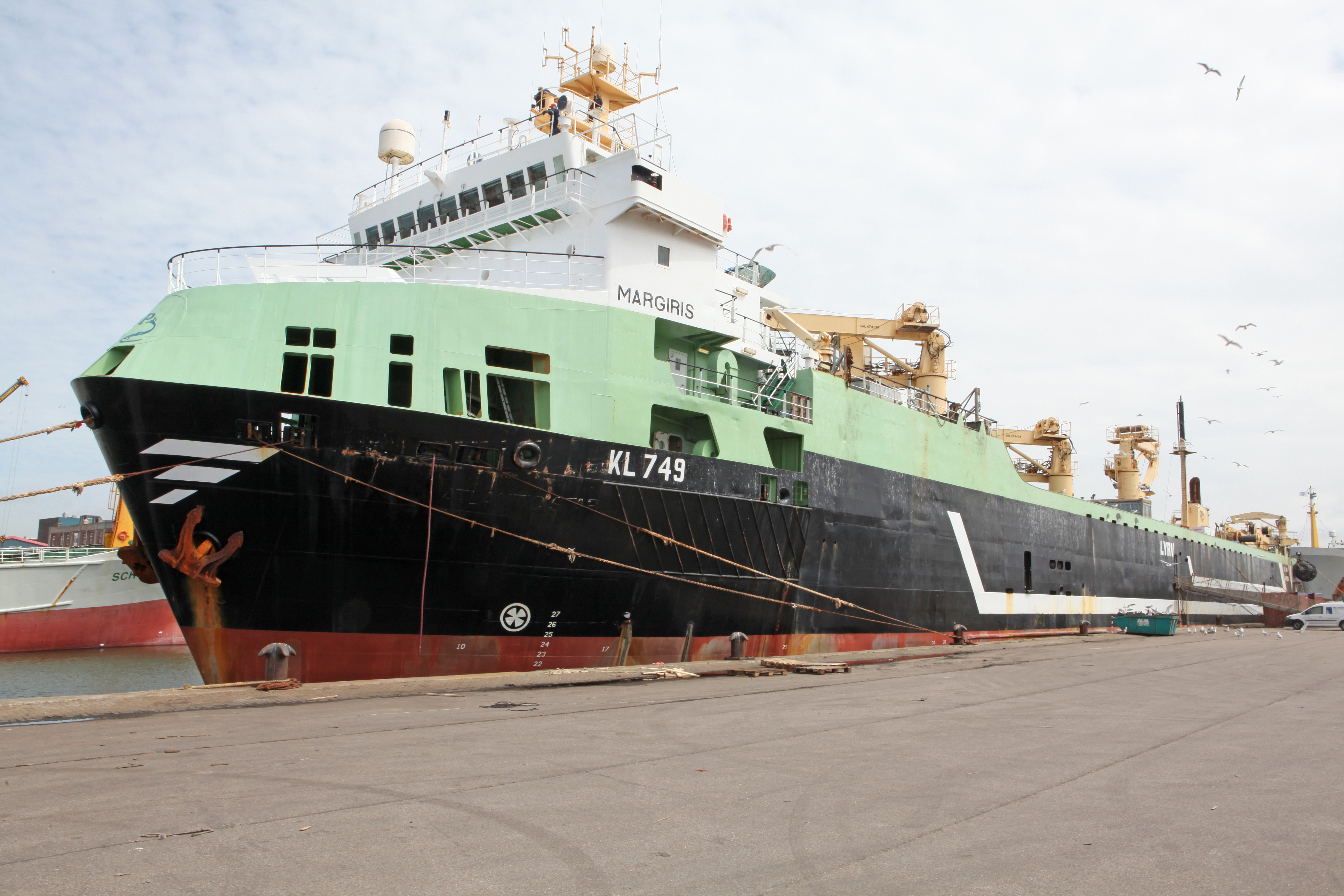 Fishing Vessel Margiris, IMO 8301187, probably at IJmuiden.